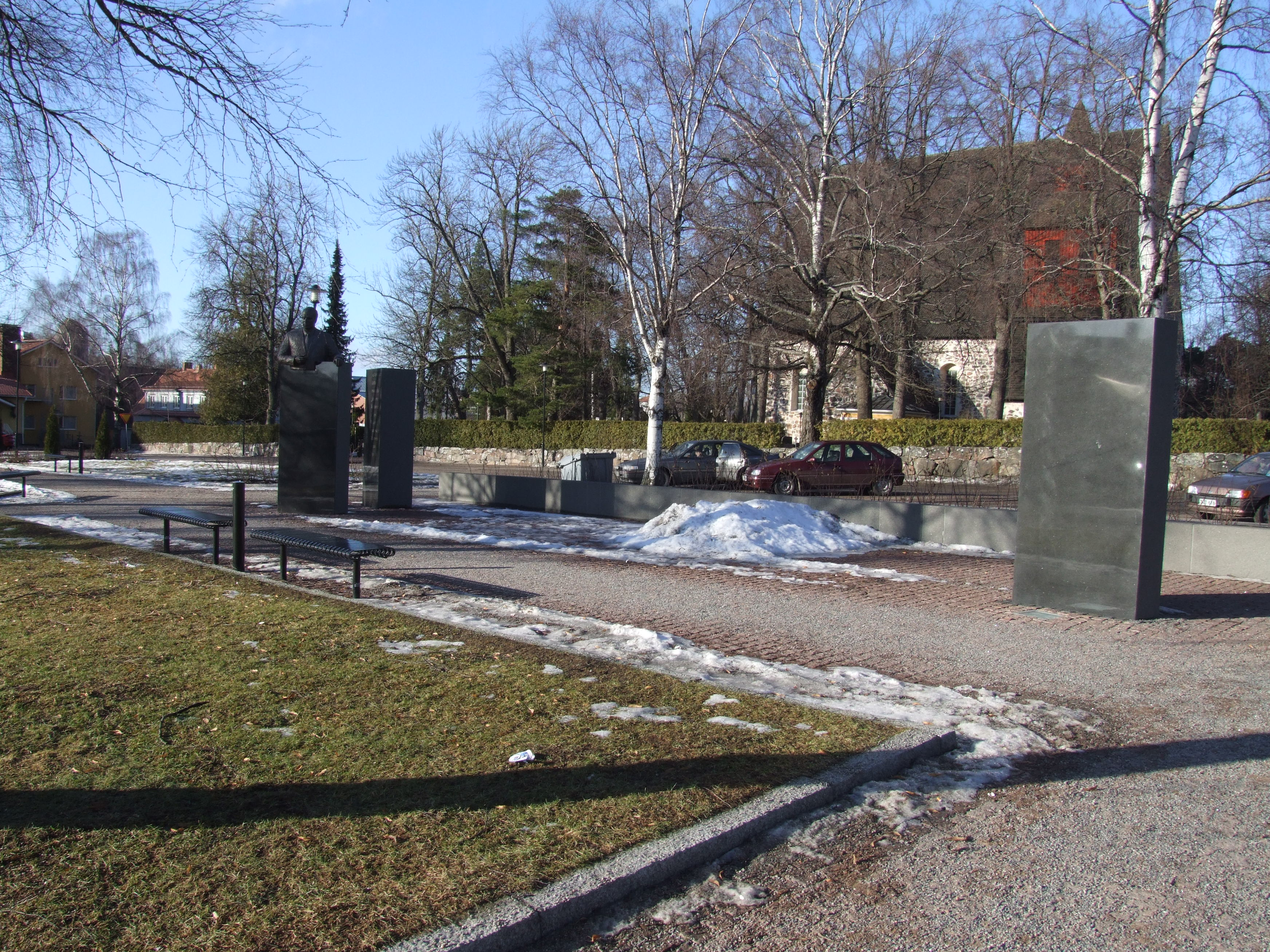 Johannes Virolainen monument in Lohja, Finland